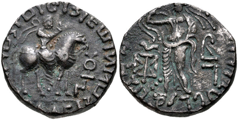 Gondophares-Sases. Circa AD 19-20-46. Tetradrachm (21mm, 10.00 g, 10h). Sases on horseback right, raising right arm; two symbols to right Rev Zeus Nikephoros standing left